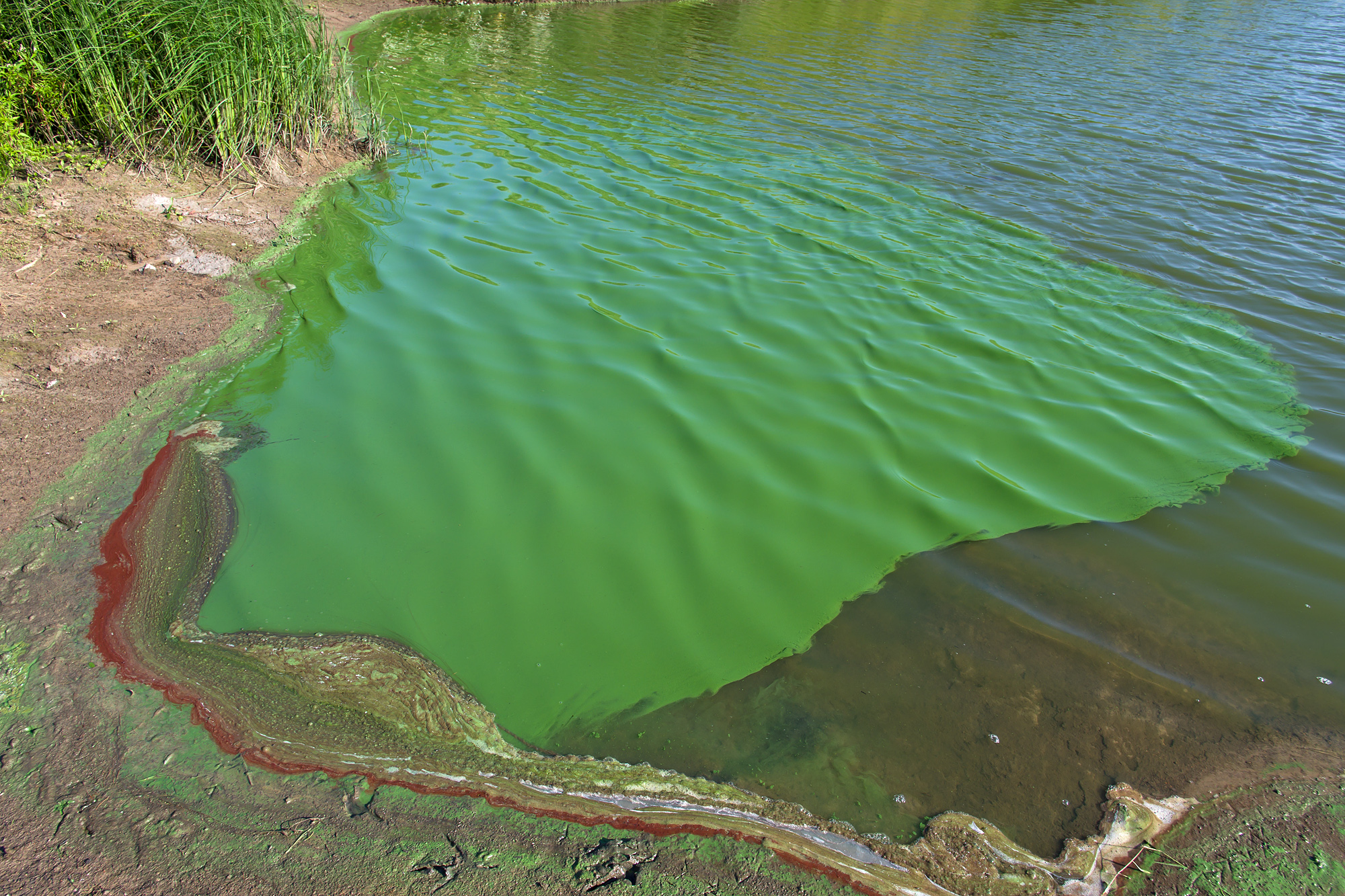 Bloom of cyanobacteria in a freshwater pond. This accumulation in one corner of the pond was caused by wind drift. It looked as if someone had dumped a bucket color into the water.